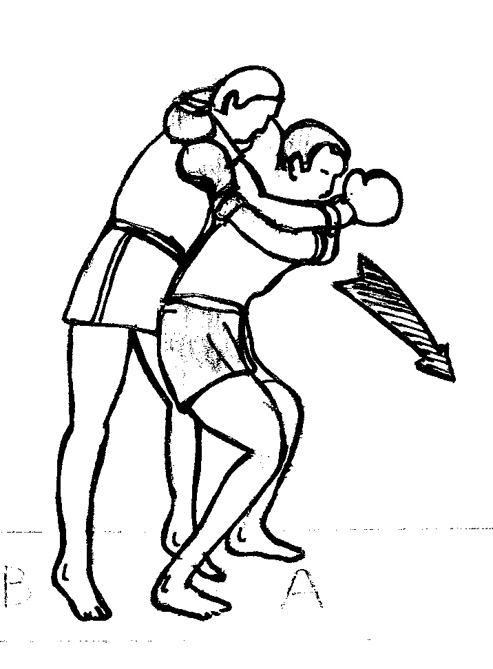 projection_hanche.jpg